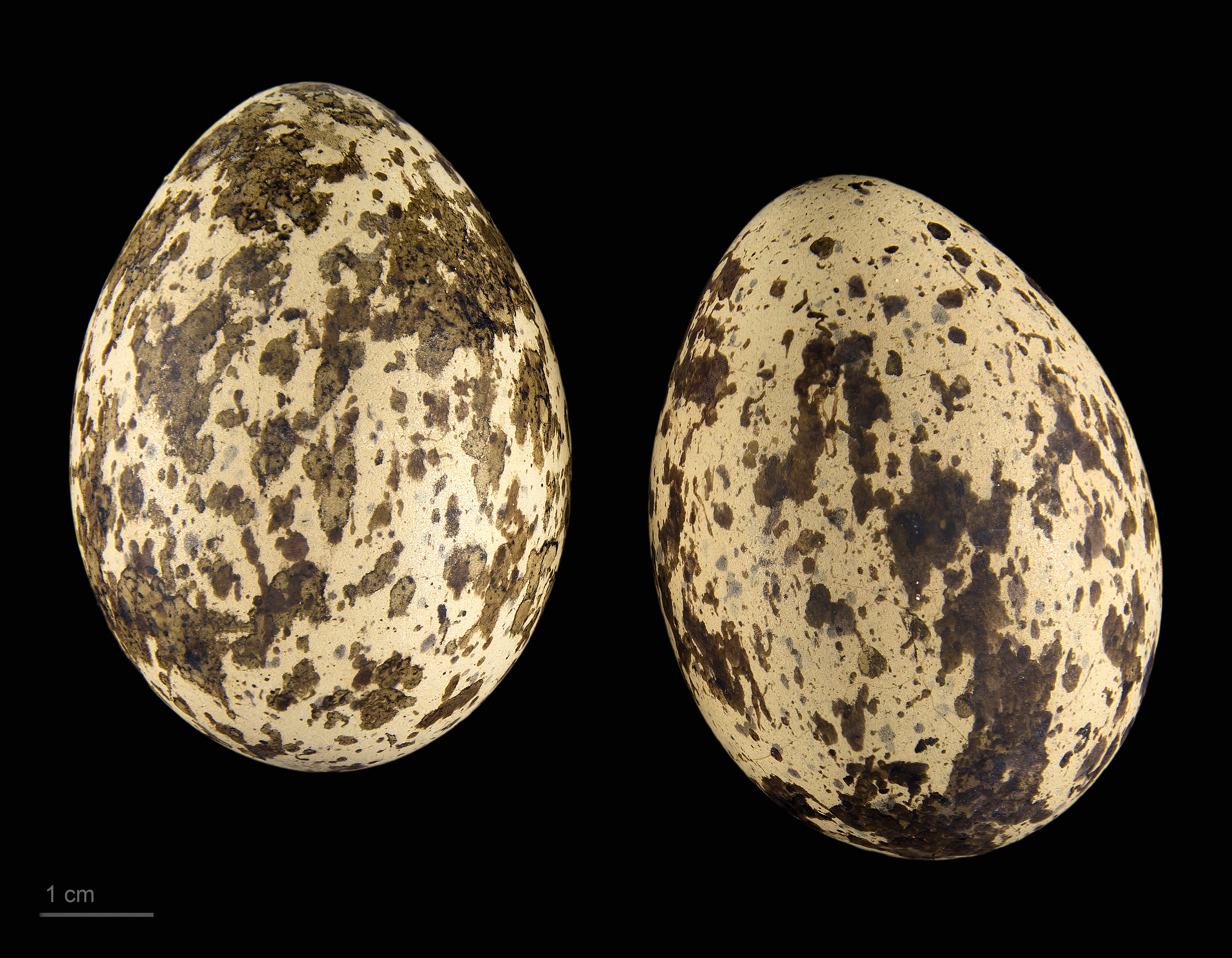 Eggs of Eurasian stone-curlew Two specimens of the same spawn ; collection of Jacques Perrin de Brichambaut.